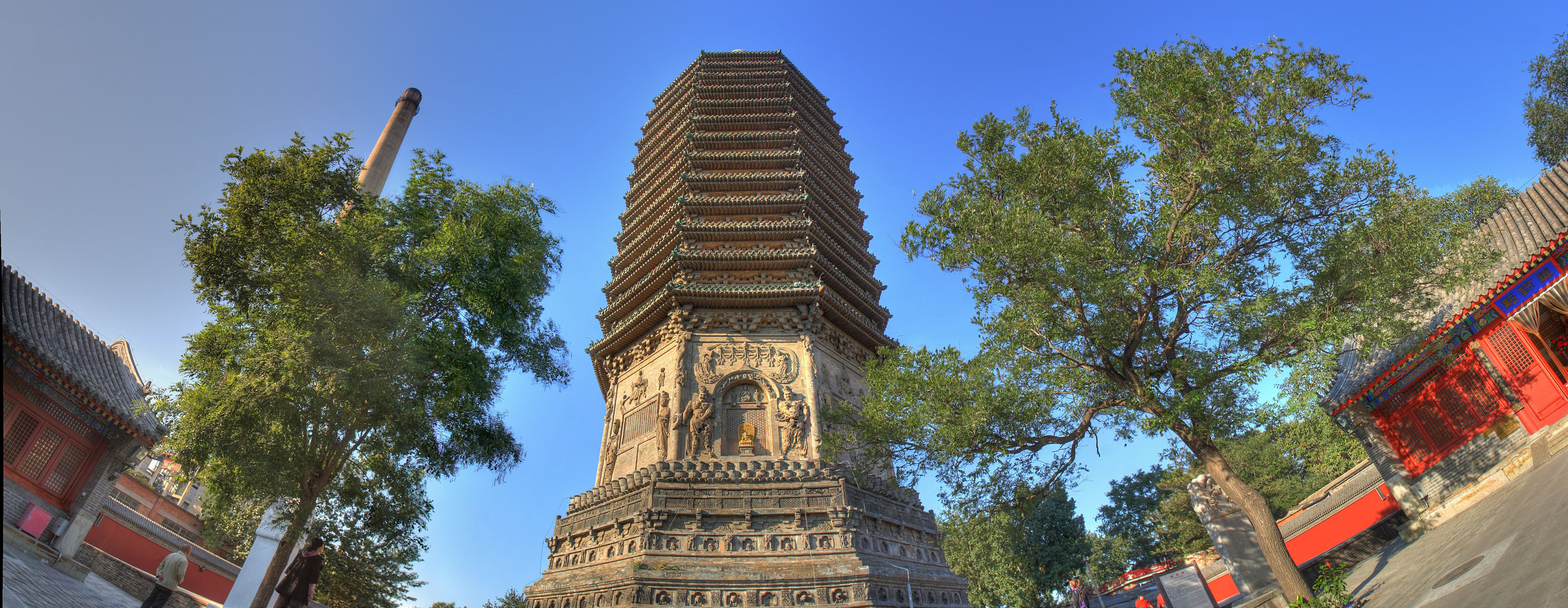 People's Republic of China Beijing Tianningsi Tianing Temple by David McBride